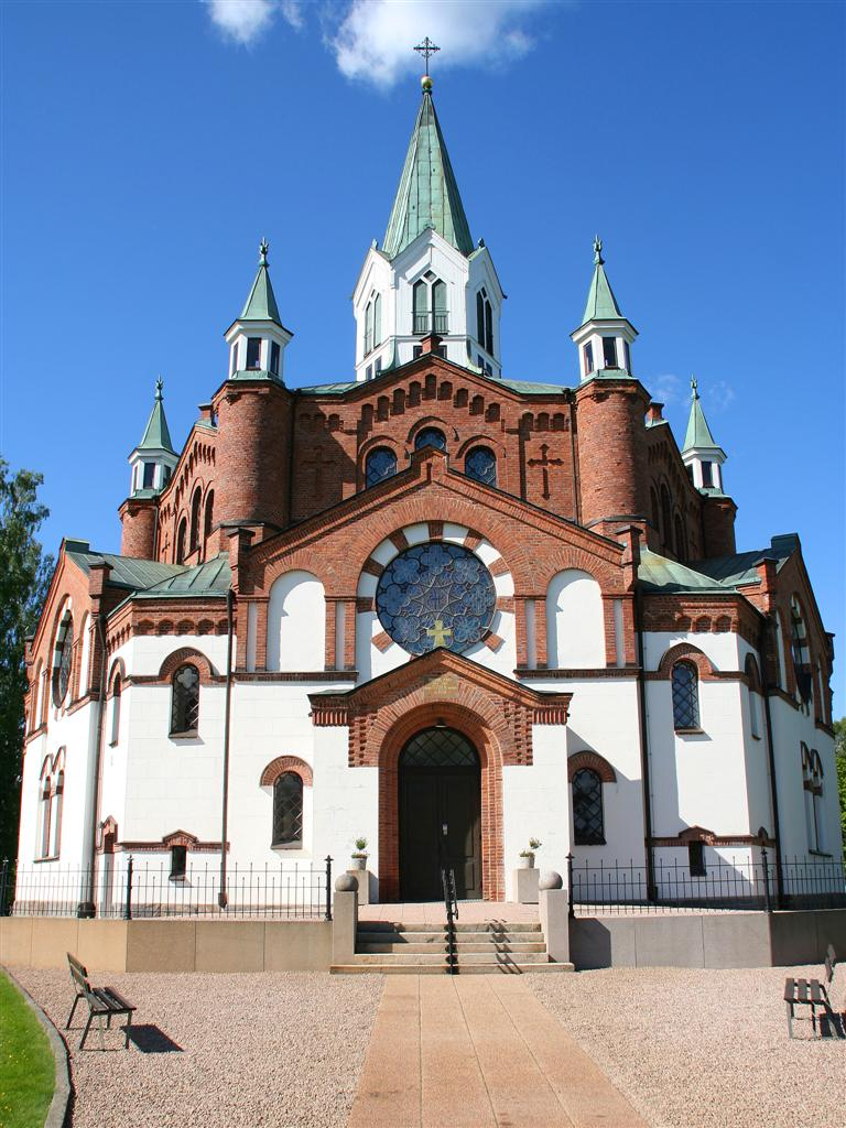 Tranemo Church